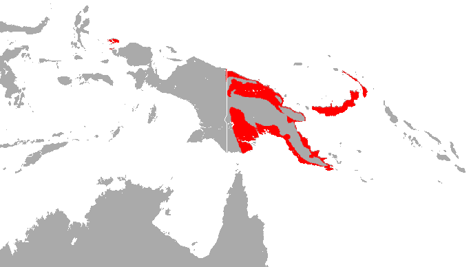 Maggie Taylor's Roundleaf Bat (Hipposideros maggietaylorae) range